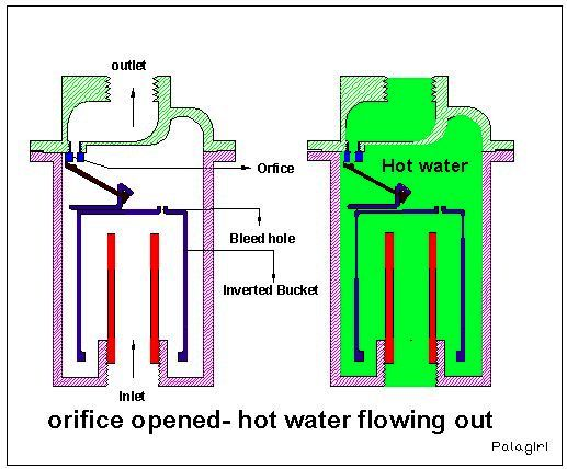 inverted bucket steam trap